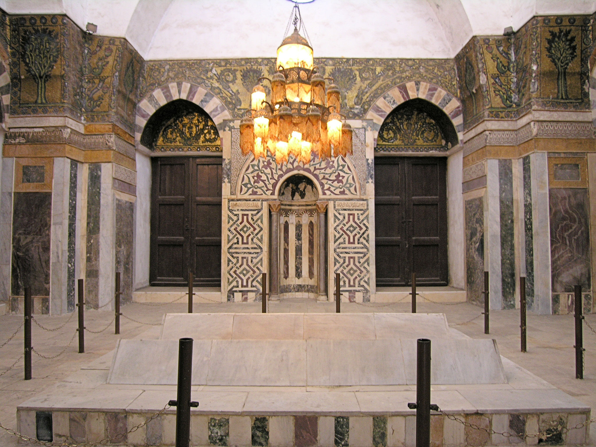 Ancient City of Damascus (Syrian Arab Republic)